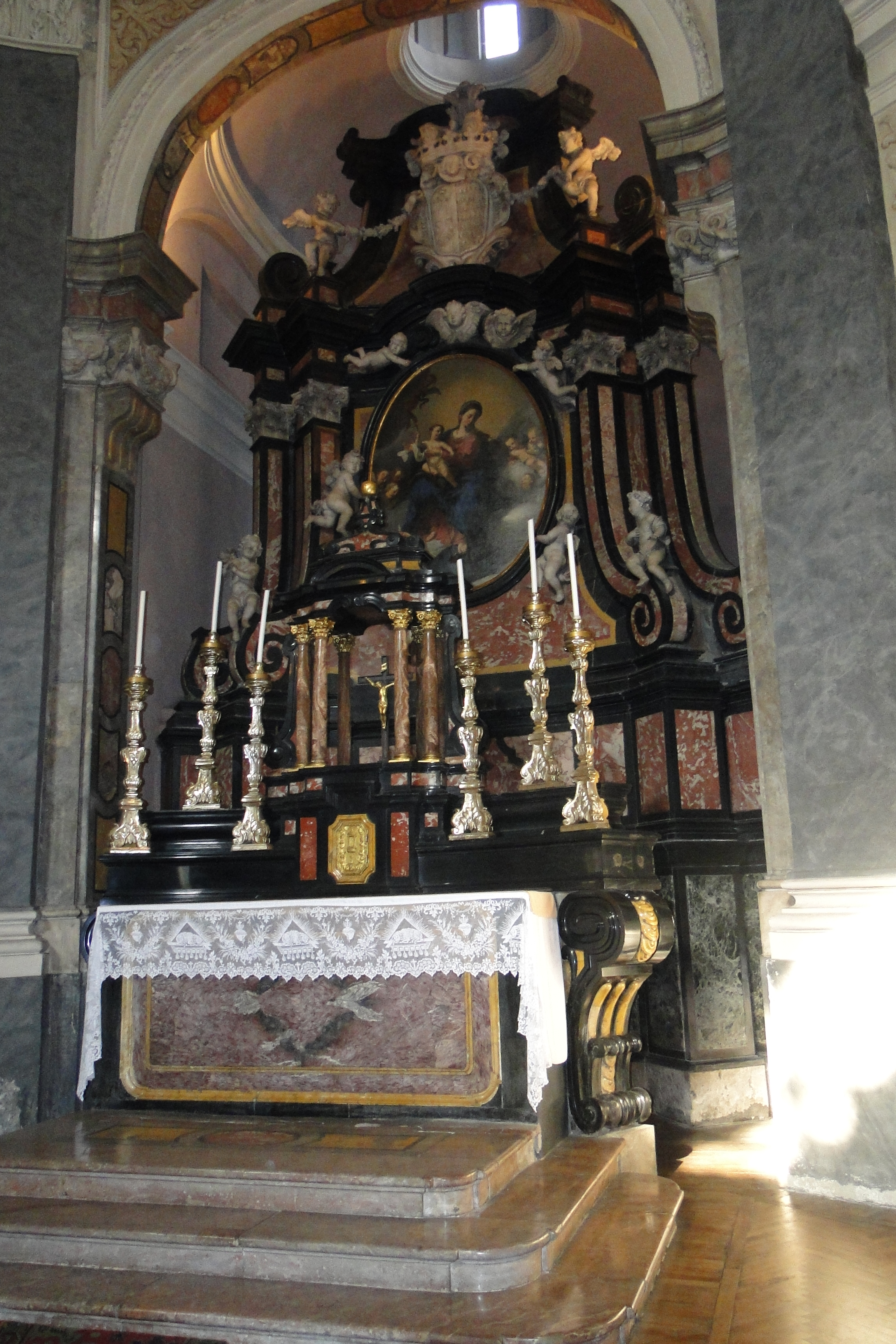 Main altar of the Church of Immaculate Conception in Turin (Italy)